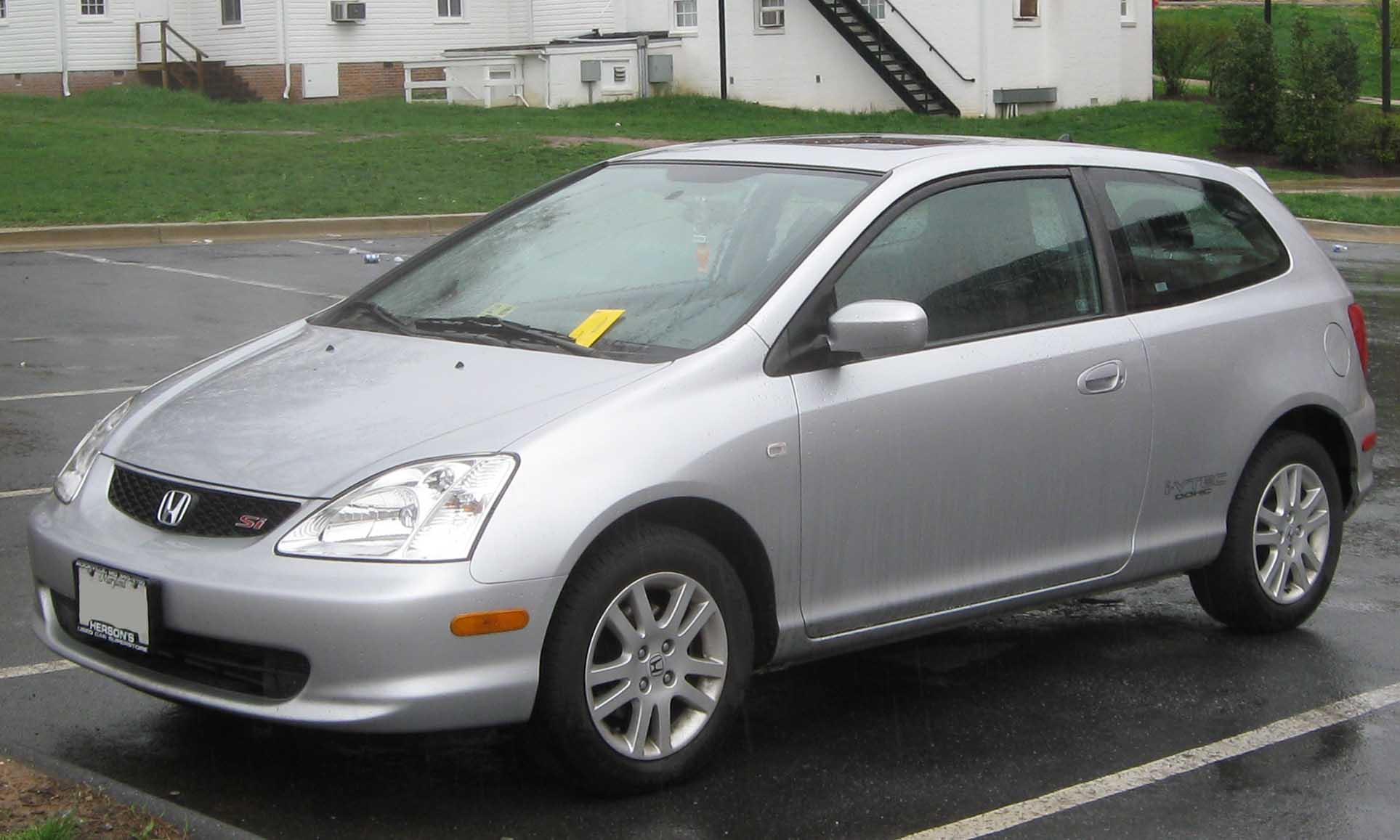 Honda Civic Si photographed in College Park, Maryland, USA.